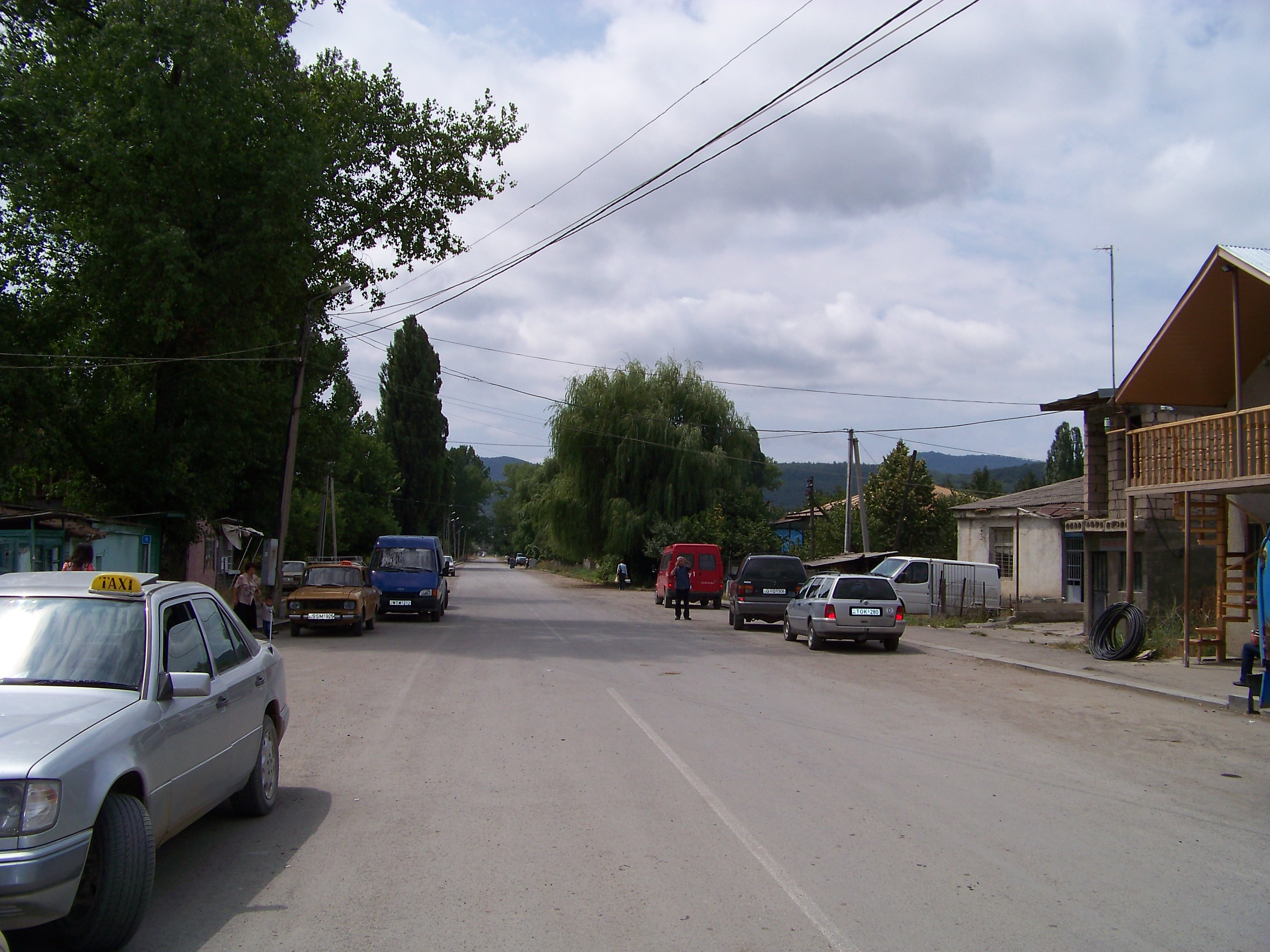 center of Tianeti